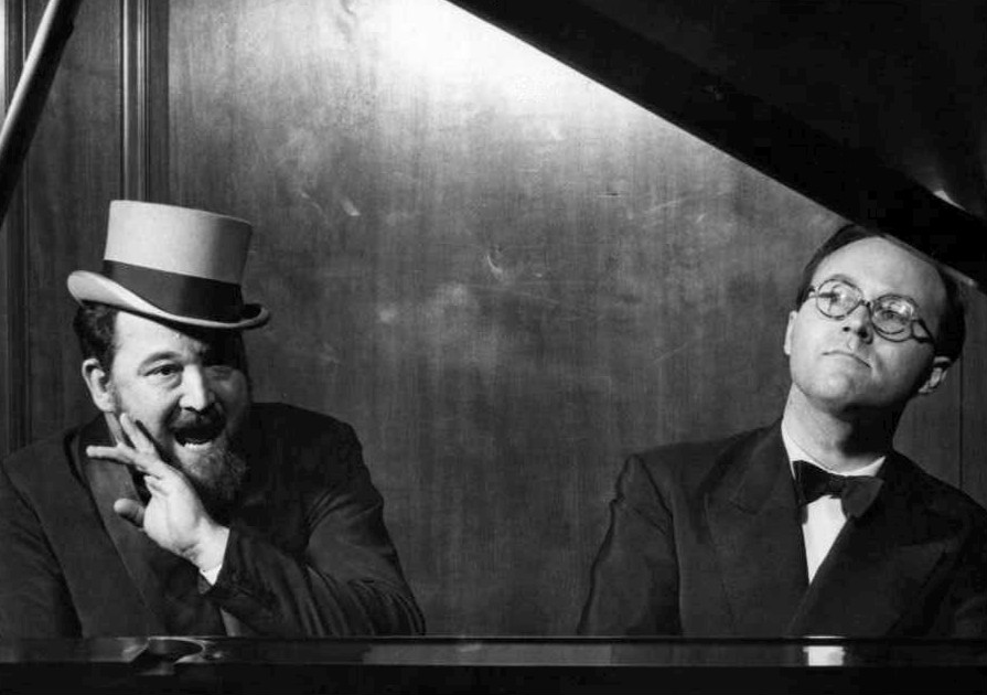 Photo of Flanders and Swann prior to their 1959 Broadway opening with At the Drop of a Hat.